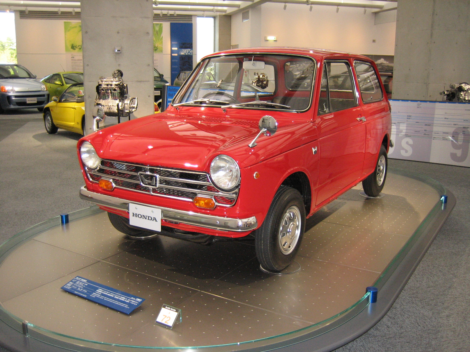 I photoed Honda N360 in the Honda collection hall.